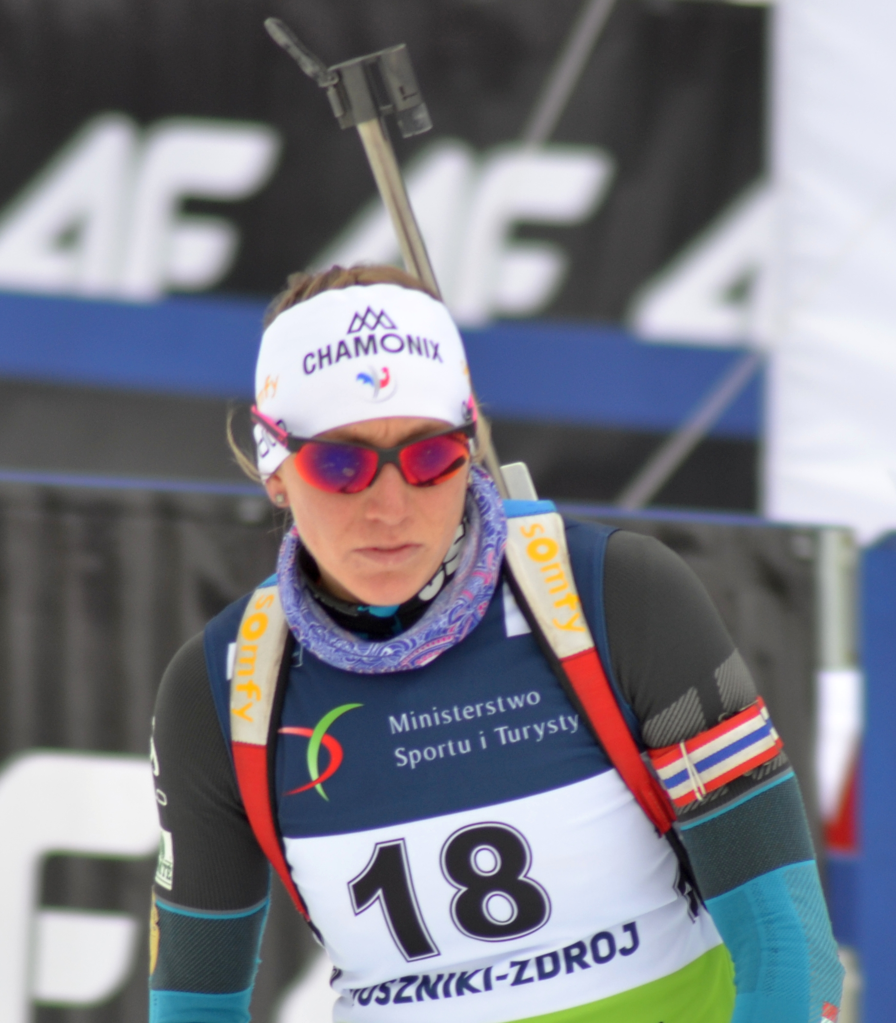 Open European Championships Biathlon 2017, Individual Women's race, held on January 25th.